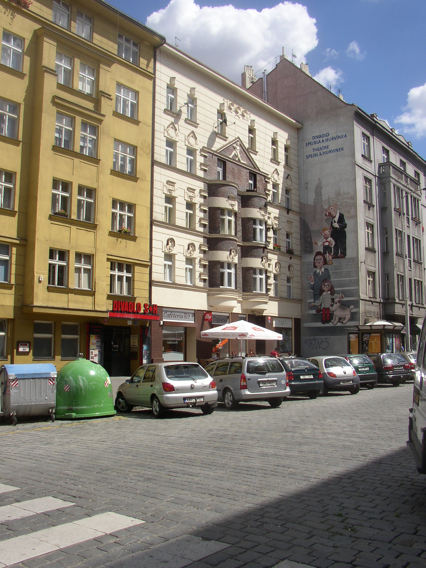 Spejbl and Hurvínek Theatre in Dejvická Street, Prague-Bubeneč, Czech Republic.